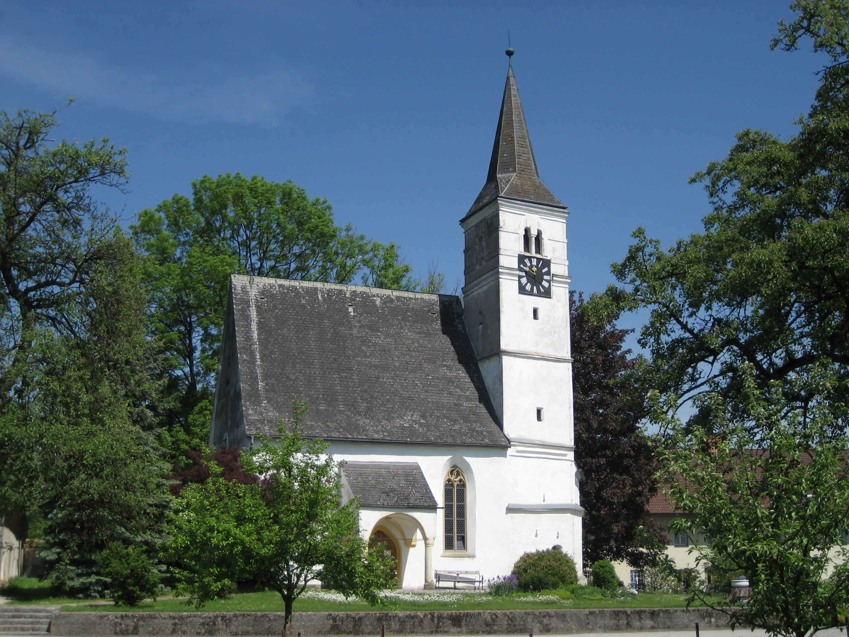 Dietach, Upper Austria, Austria, Europe: Subsidiary church in "Stadlkirchen" district.